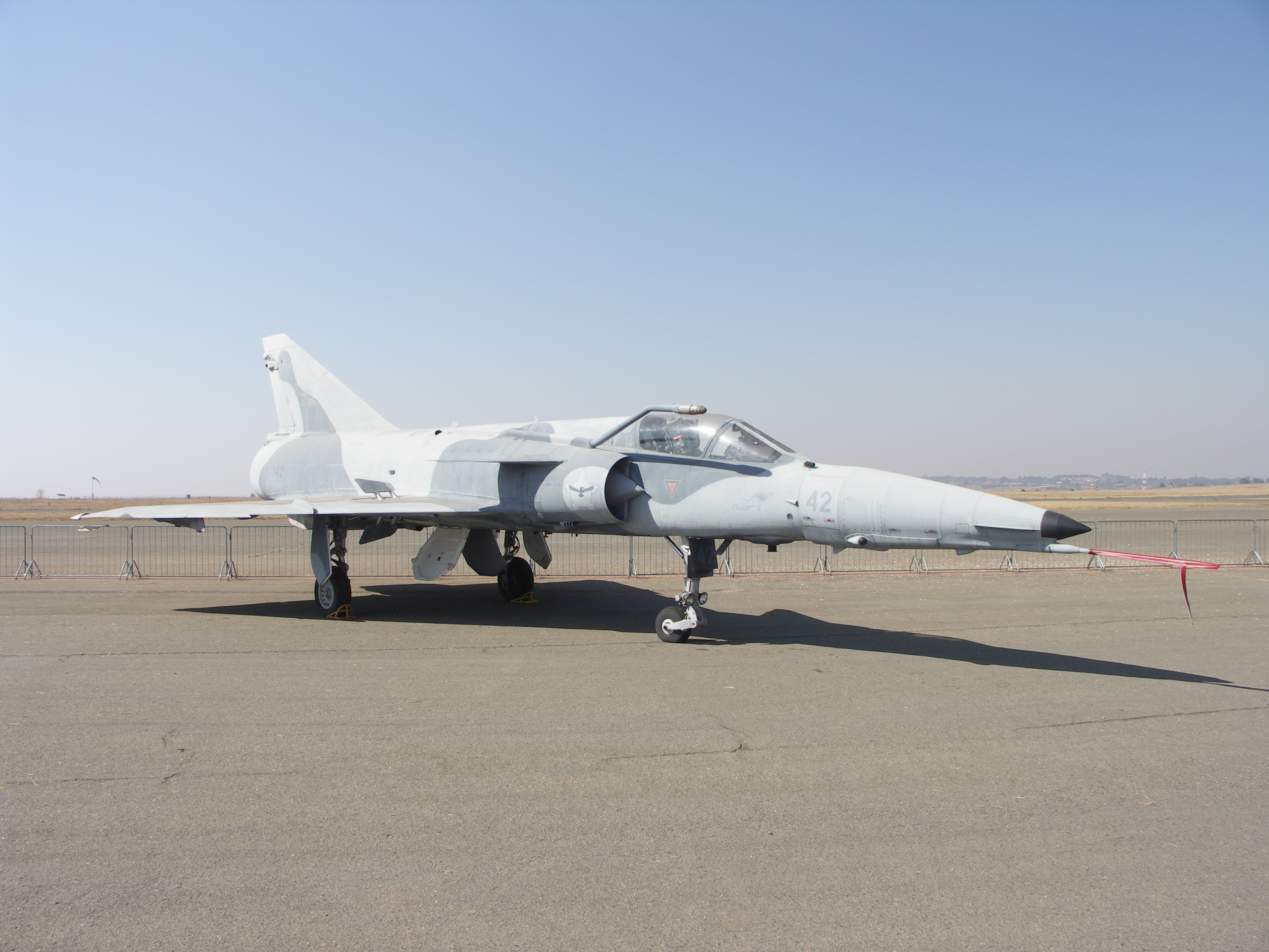 Cheetah E (No, 842) at the South African Air Force Museum at Swartkop, Pretoria